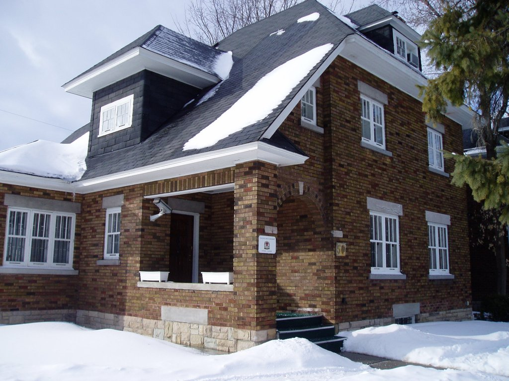 High Commission of Tanzania in Ottawa. Taken by SimonP in January 2005